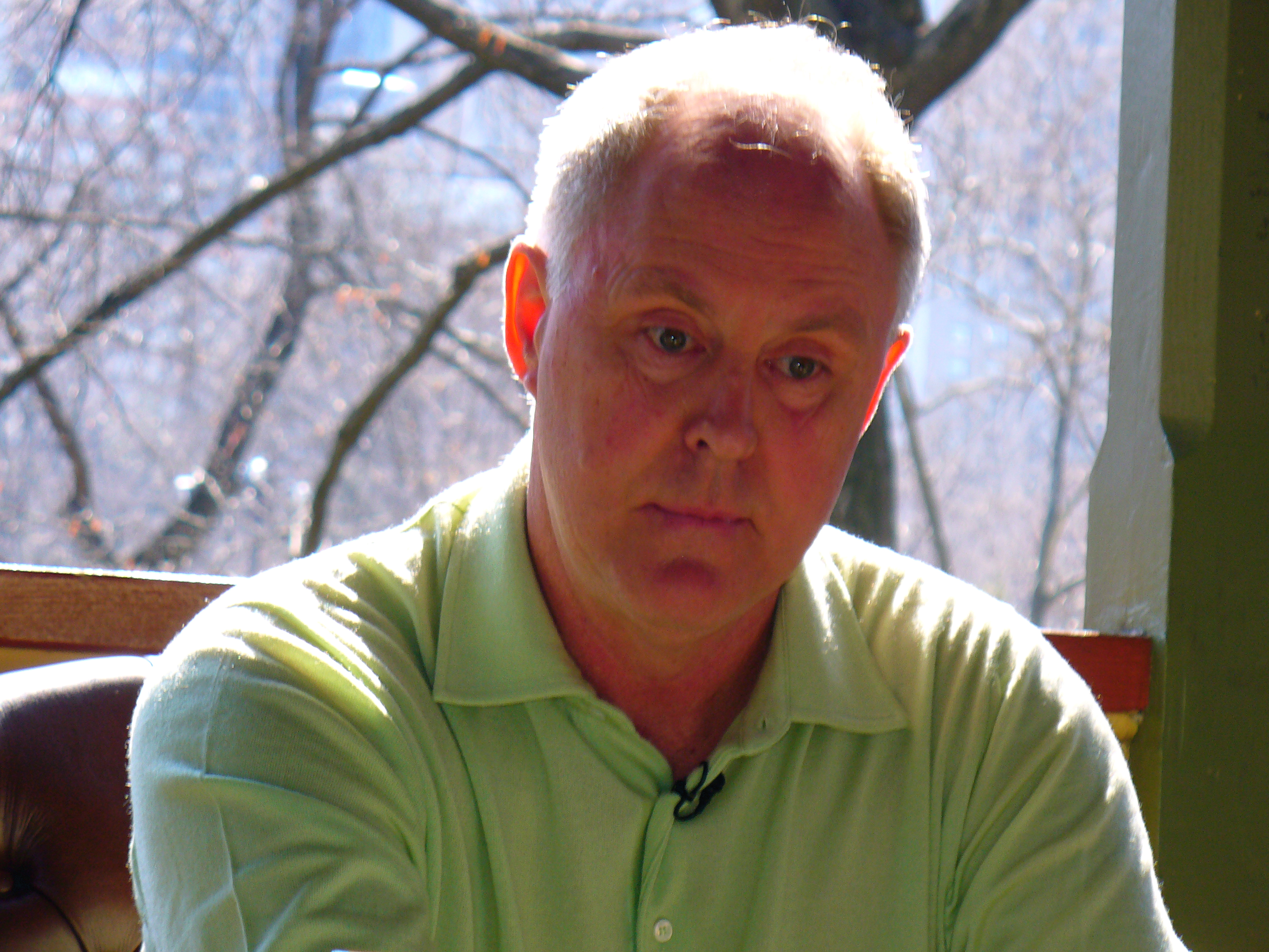 John Lithgow 3 by David Shankbone